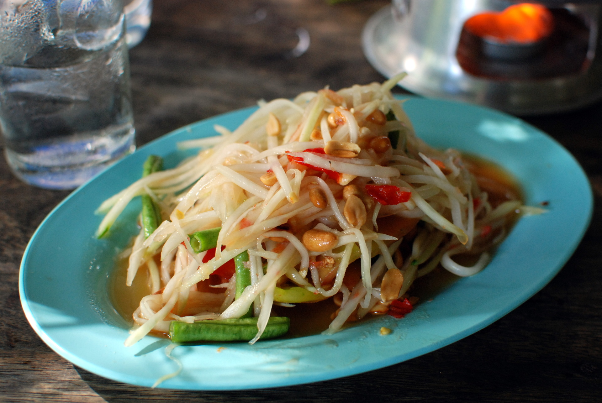 Som tam Thai (Thai script: ส้มตำไทย) is the famous green papaya salad done Thai style, that is, without pla ra (fermented fish). Here at an eatery near Huai Kaeo waterfall, Chiang Mai.